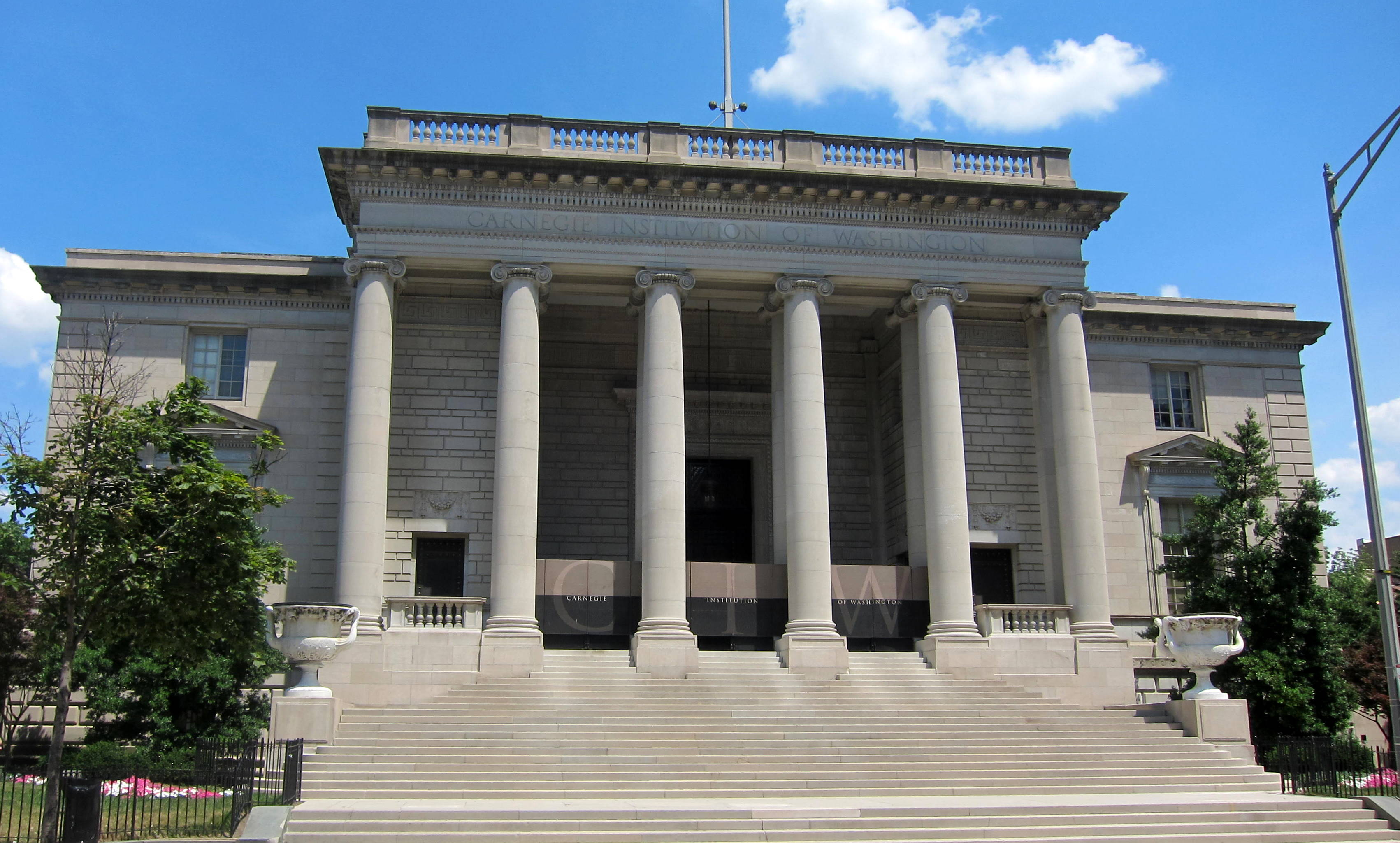 The Administration Building, Carnegie Institution of Washington is located at 1530 P Street, N.W., in the Dupont Circle neighborhood of Washington, D.C. The Beaux-Arts style building was designed by the Carrère and Hastings architectural firm in 1910. The Administration Building was declared a National Historic Landmark in 1965 and is designated as a contributing property to the Sixteenth Street Historic District.